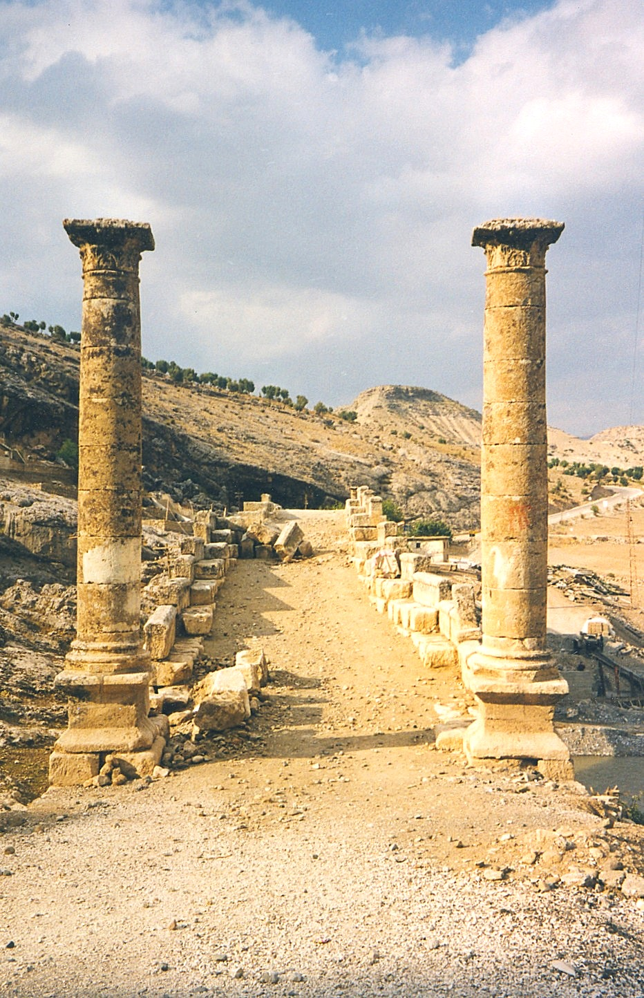 Severan Bridge